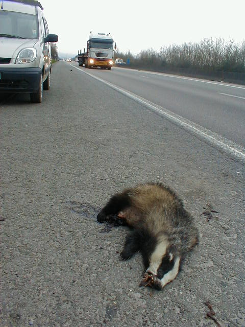 A European badger crushed by a vehicle on A4 highway, Wallonia, Belgium Walon: spotchî taesson so l' Otostråde Brussele-Lussimbork